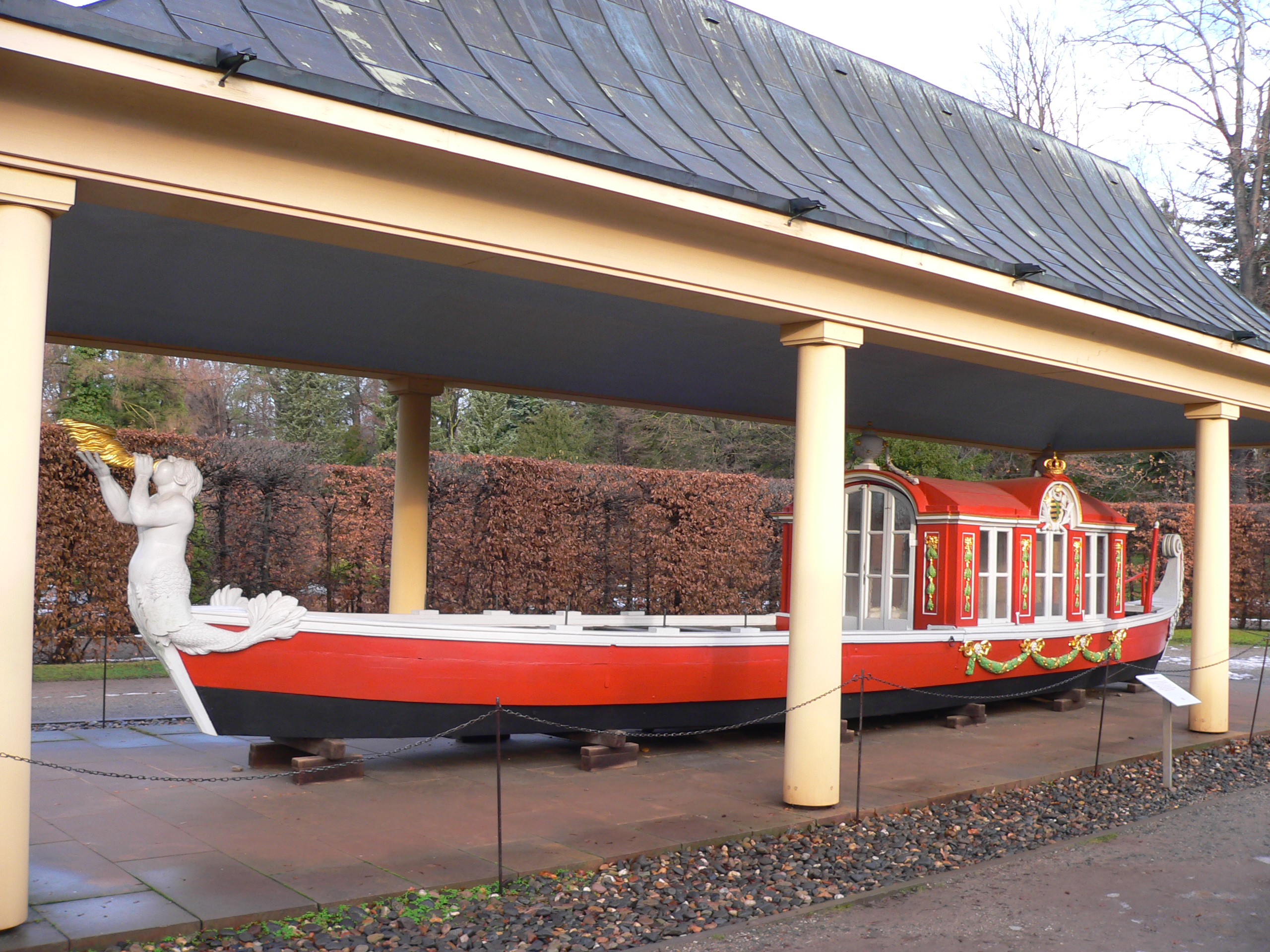 Gondola in the park of Pillnitz Castle